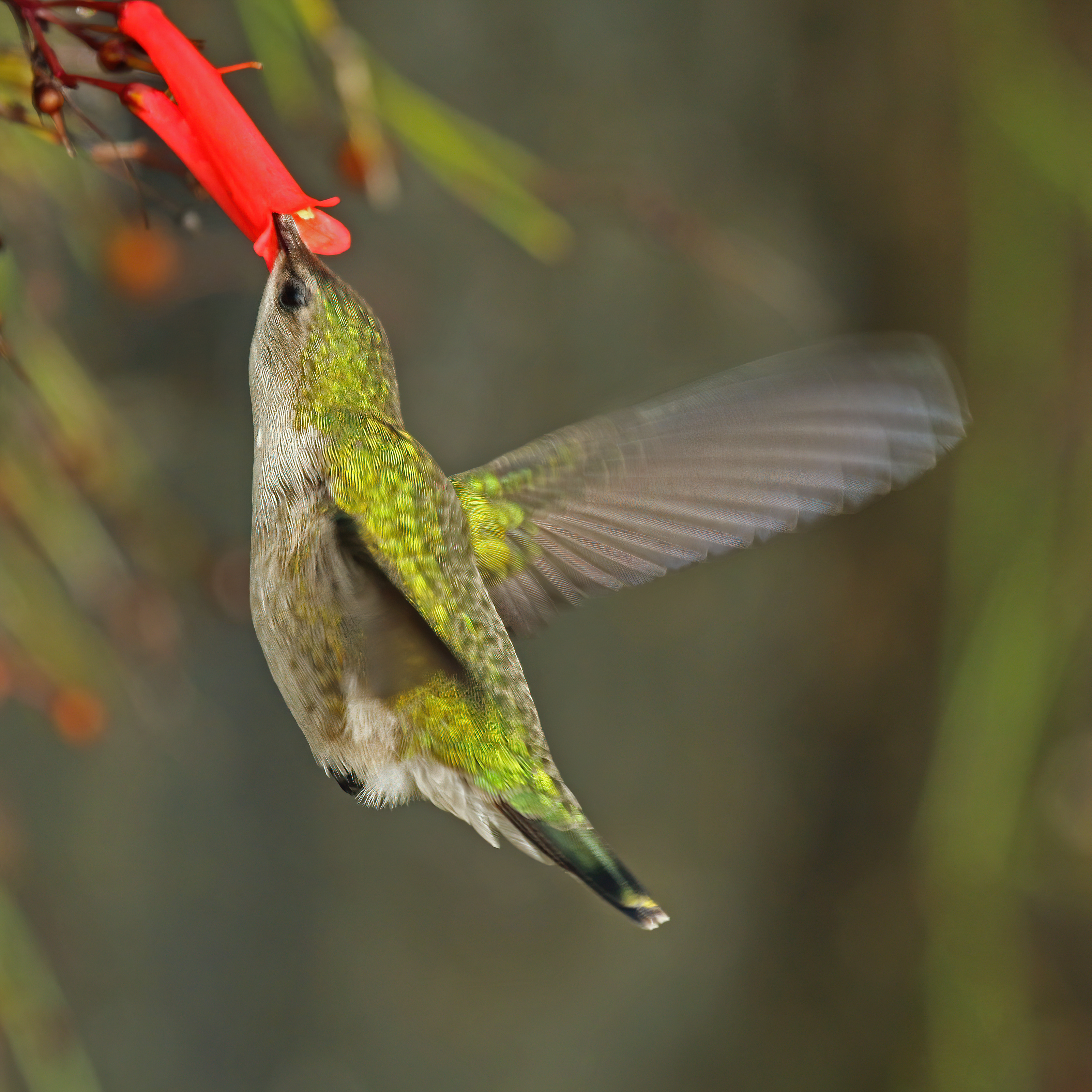 Vervain hummingbird (Mellisuga minima) feeding, Strawberry Hill, Jamaica